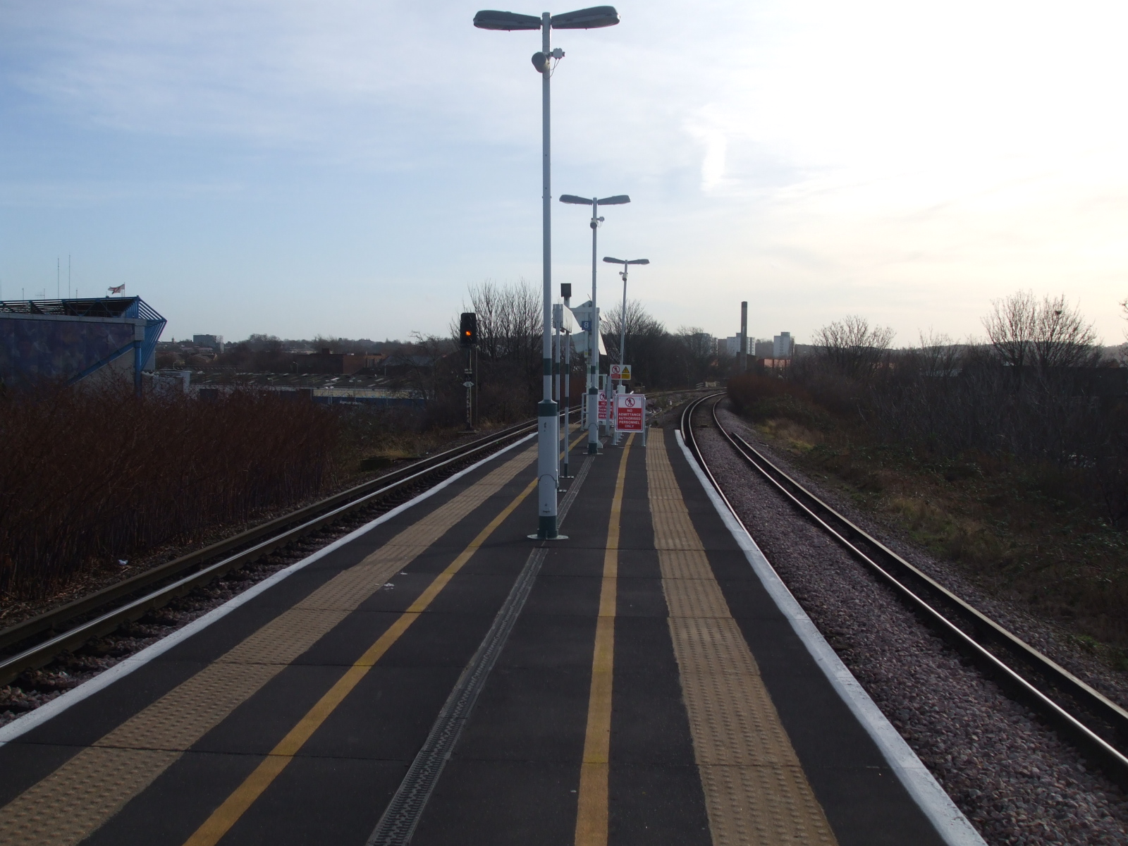 South Bermondsey station island platform looking south